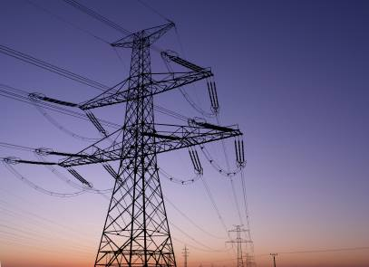 Pylon, high-voltage power lines